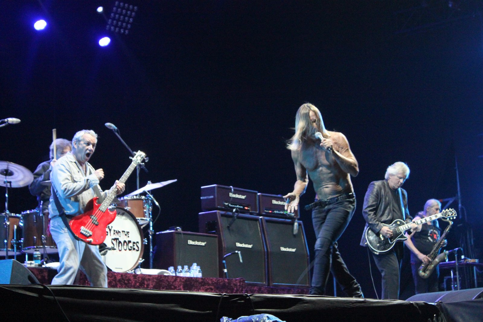 The Stooges & Iggy Pop, Poland, Katowice Off Festval 2012-08-04